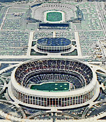 Veterans Stadium, the Spectrum, and JFK (Municipal) Stadium made up the Philadelphia Sports Complex in 1973. All three structures are now gone.